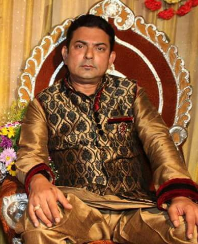 Marriage of Bengali actor Kushal Chakraborty